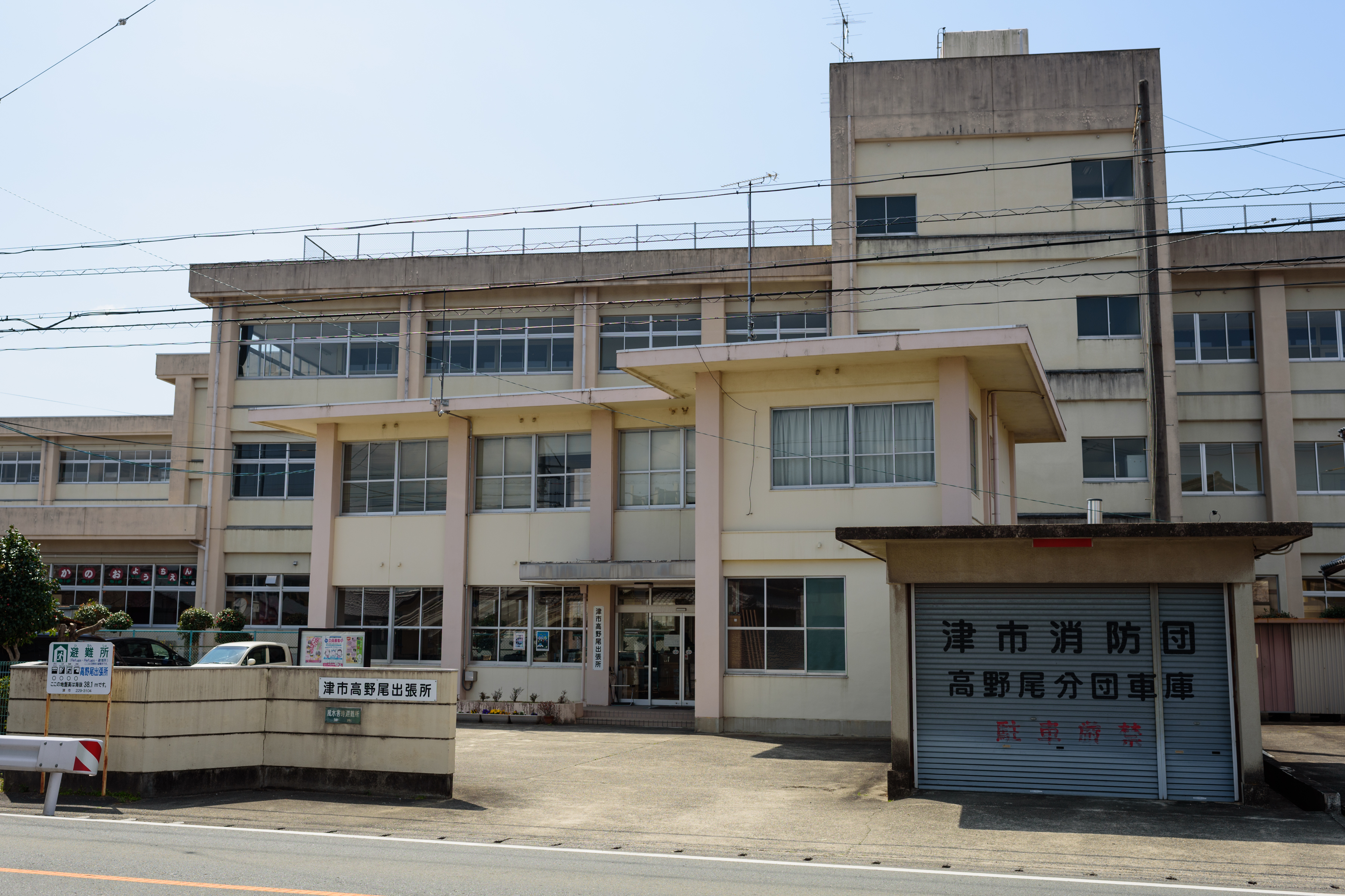 Takanoo Office of Tsu City Hall, Mie, Japan